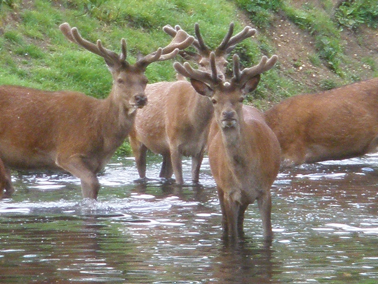 Western European red deer (Cervus elaphus elaphus) herd in Richmond Park, London, England.